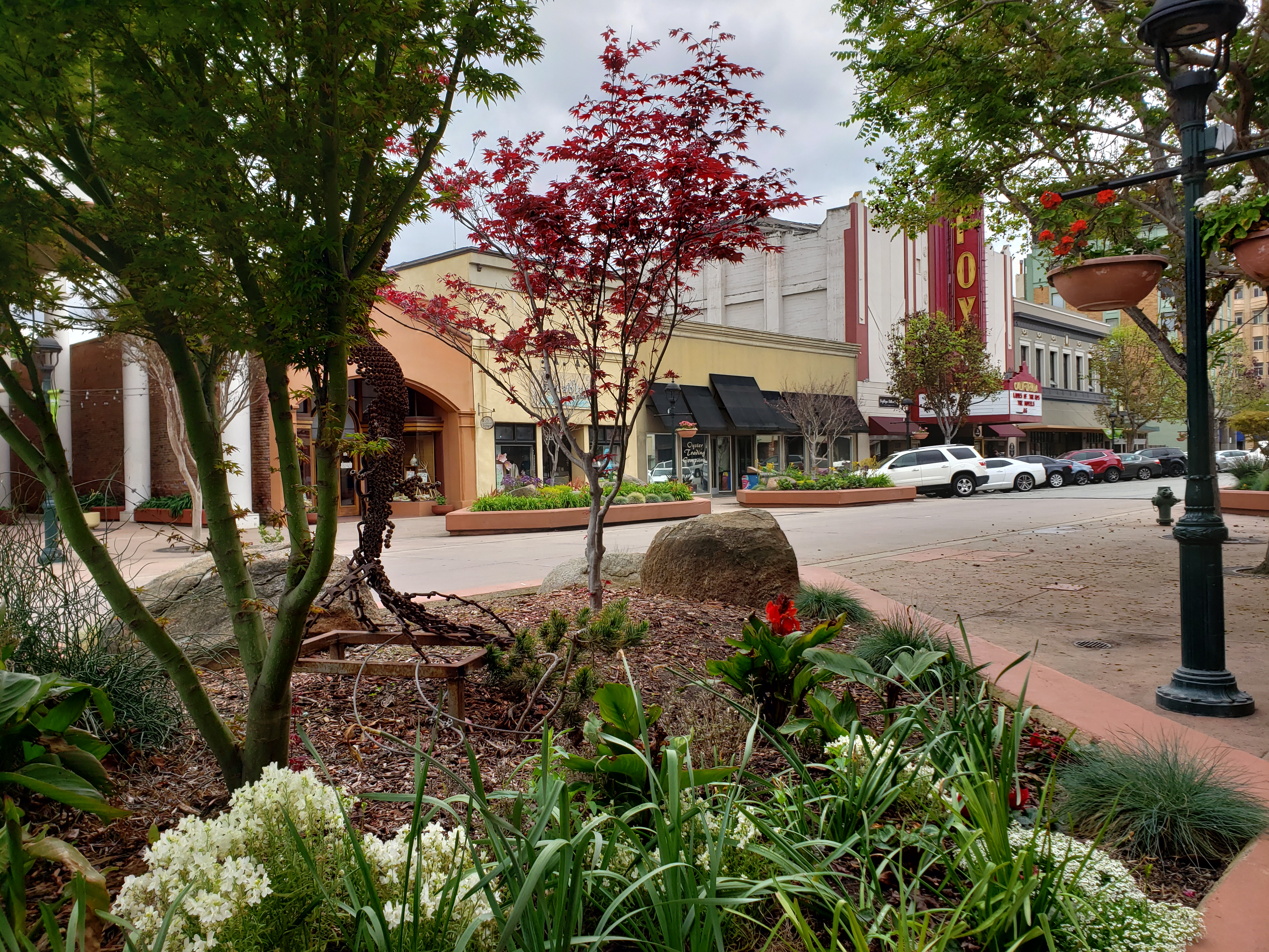 Main Street in Salinas, CA landscaped trees at crosswalk